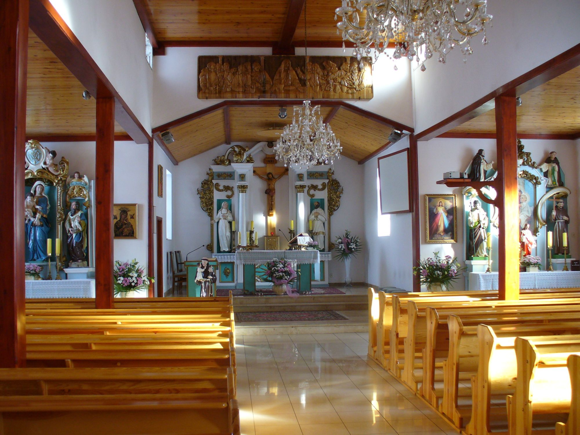 Poland, Kosakowo (Pomerania) - Church